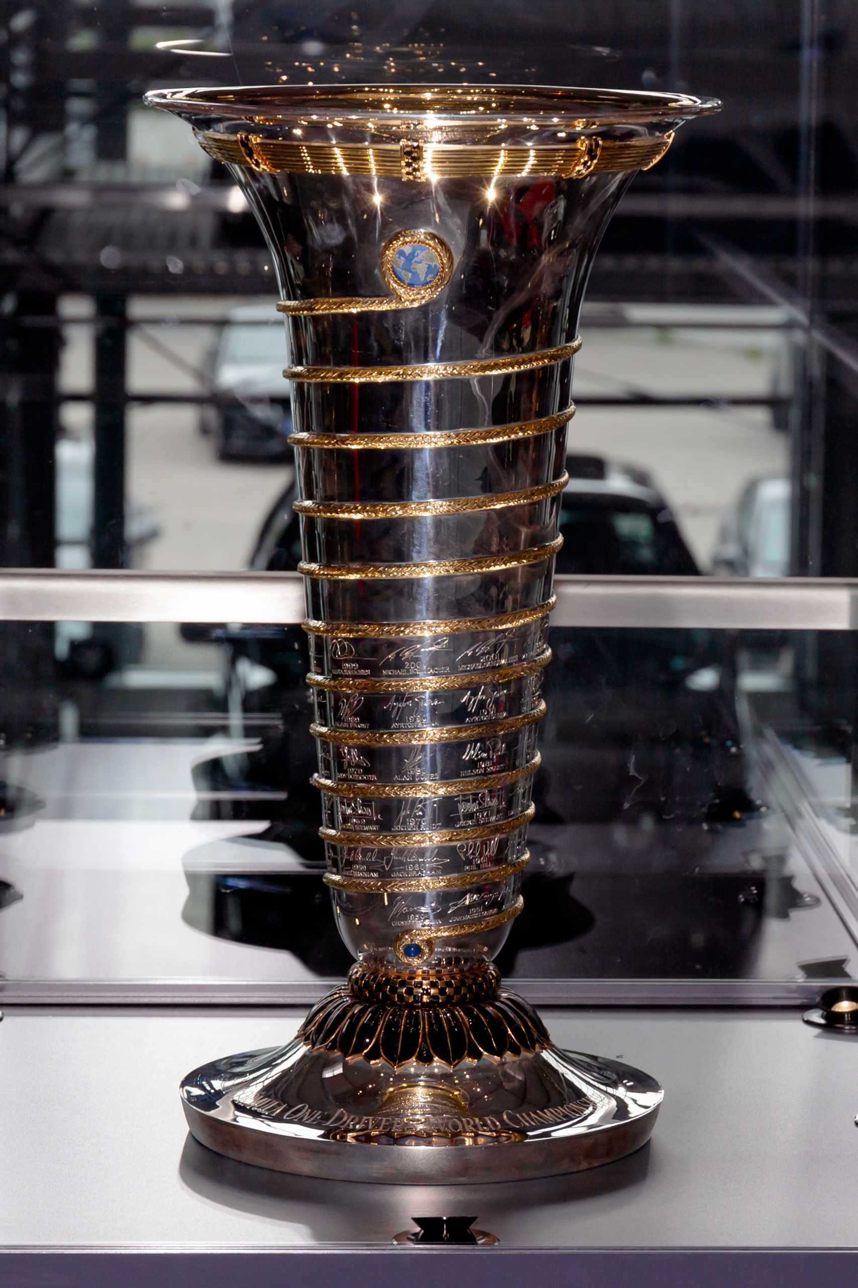 Michael Schumacher Private Collection: 2004 Driver's World Championship trophy